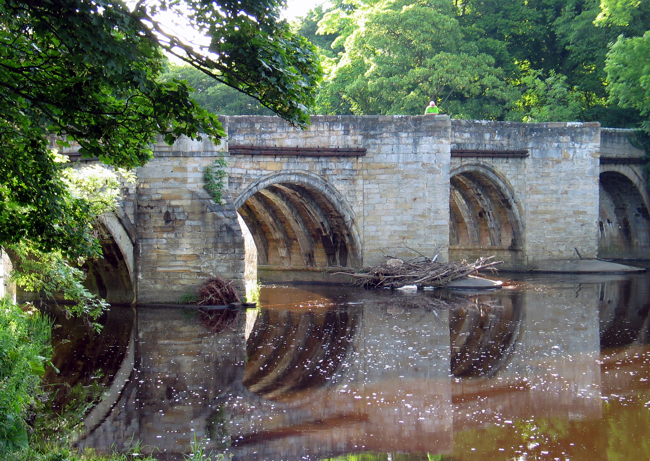 Sunderland Bridge over the River Wear near Durham City, taken by Peter Hughes on Saturday 30 June 2007